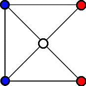 Starting position for the game Pong Hau K'i.